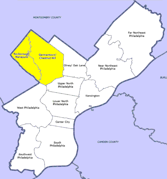 Map of Philadelphia County highlighting Northwest Philadelphia